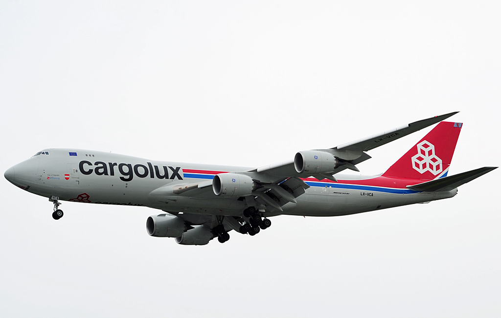 LX-VCA B747-8F of Cargolux landing at Singapore, Changi on April 14, 2013.